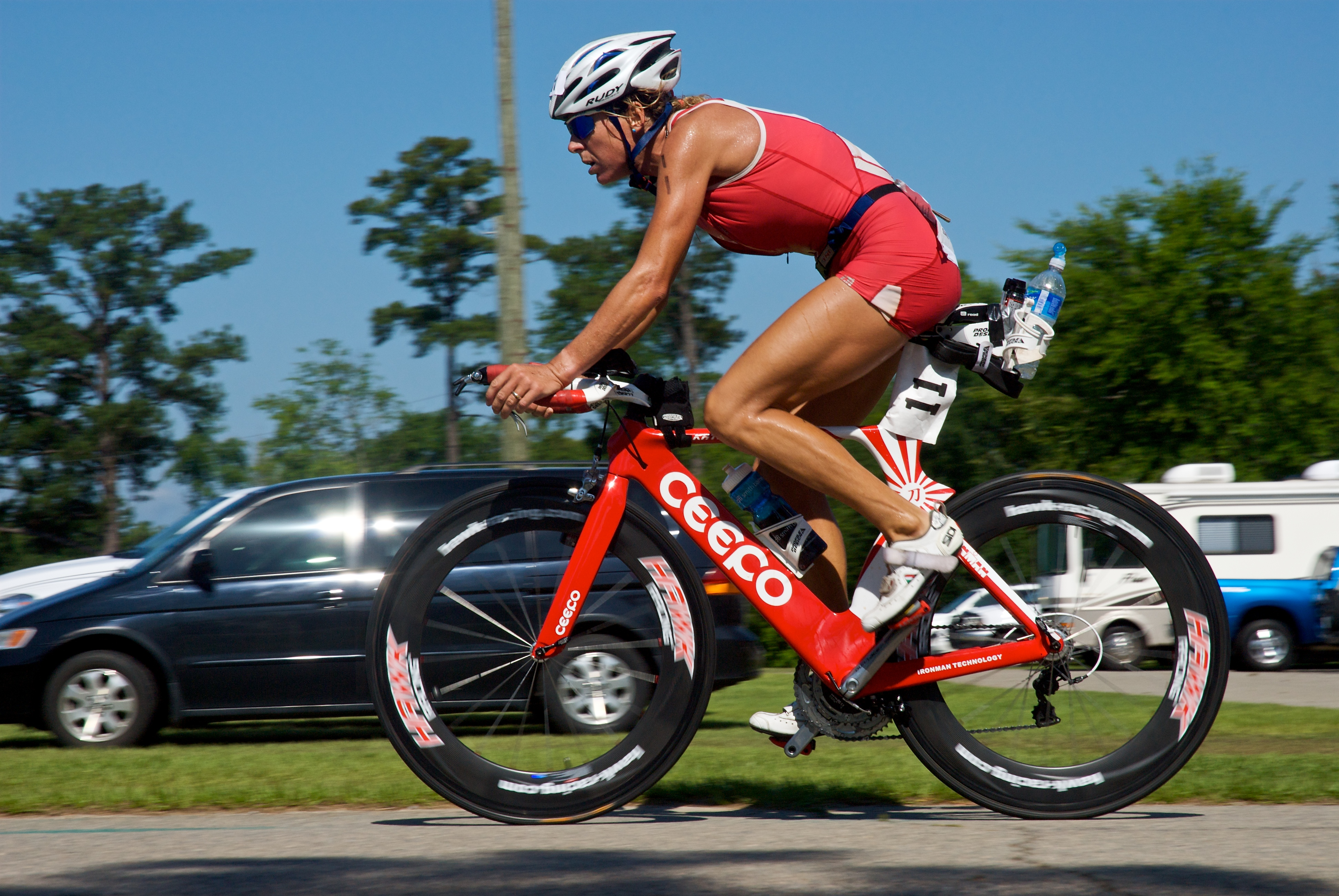 Nina Kraft at 2010 Rock ‘N RollMan Half Macon, Georgia